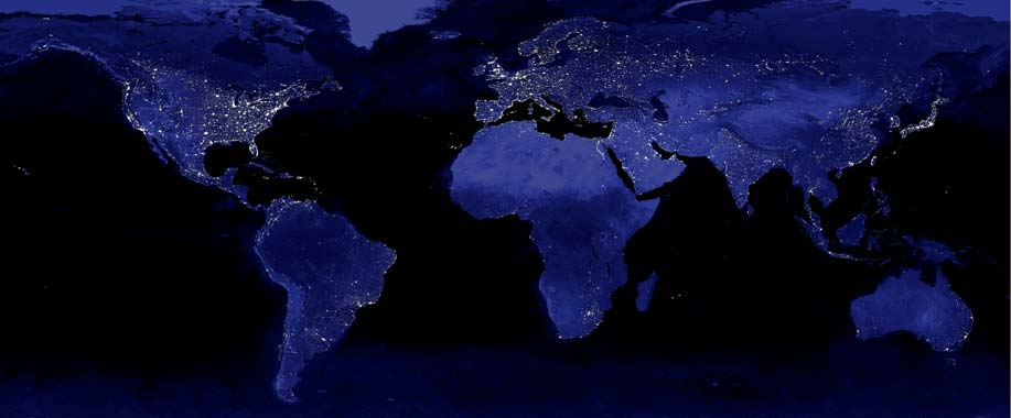 The image shows the urbanization of the world's cities through the use of the DMSP satellite system. This image of Earth's city lights was created with data from the Defense Meteorological Satellite Program (DMSP) Operational Linescan System (OLS). Originally designed to view clouds by moonlight, the OLS is also used to map the locations of permanent lights on the Earth's surface. The brightest areas of the Earth are the most urbanized, but not necessarily the most populated. (Compare western Europe with China and India.) Cities tend to grow along coastlines and transportation networks. The United States interstate highway system appears as a lattice connecting the brighter dots of city centers. In Russia, the Trans-Siberian railroad is a thin line stretching from Moscow through the center of Asia to Vladivostok. The Nile River, from the Aswan Dam to the Mediterranean Sea, is another bright thread through an otherwise dark region. Even more than 100 years after the invention of the electric light, some regions remain thinly populated and unlit. Antarctica is entirely dark. The interior jungles of Africa and South America are mostly dark, but lights are beginning to appear there. Deserts in Africa, Arabia, Australia, Mongolia, and the United States are poorly lit as well (except along the coast), along with the boreal forests of Canada and Russia, and the great mountains of the Himalaya.